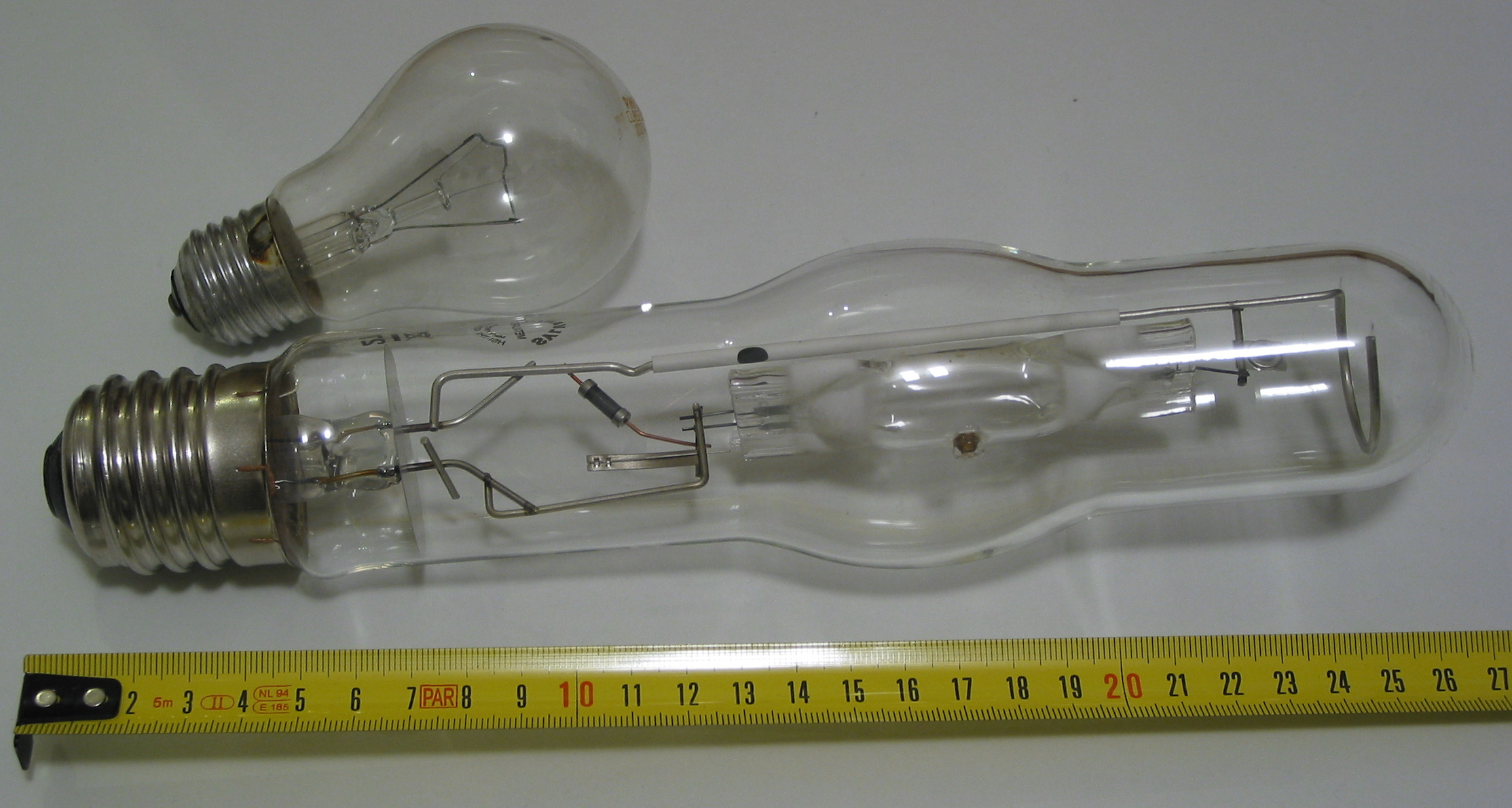 Metal halide lamp (Sylvania HSI-THX 400W/4K; E40 screw base) in comparison with a typical incandescent light bulb (Philips; 100 watts)